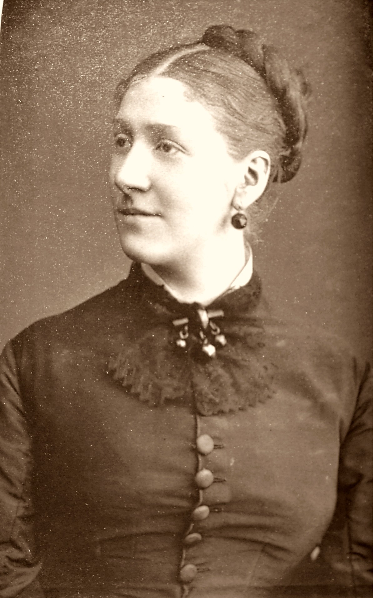 Madge Robertson 1848-1935, English Actress and Theatre-Manager.